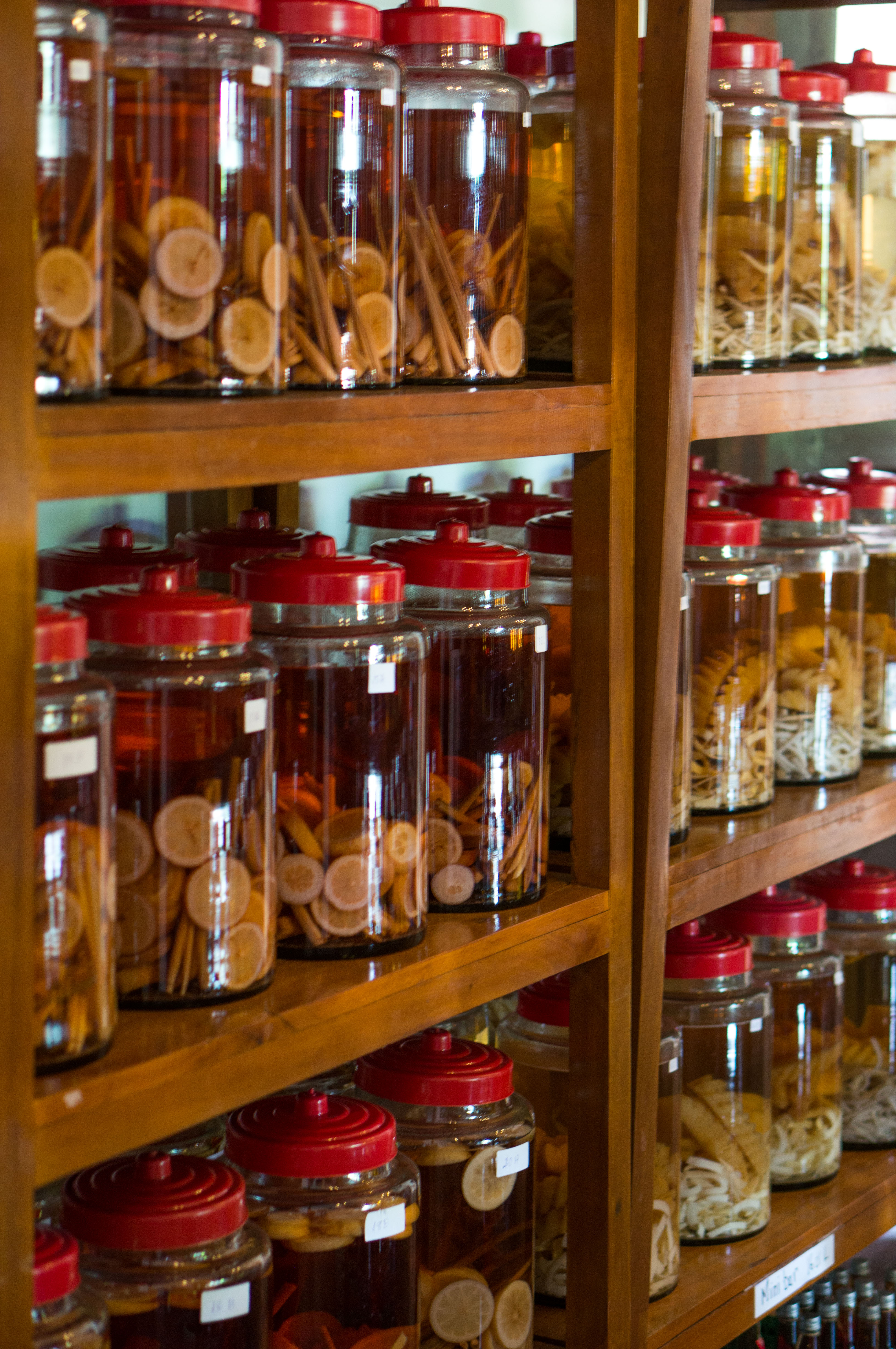 Jars of Sombai Liqueur with fruits and spices infusing in it